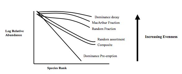 This graph depicts the 7 most common niche apportionment models for species abundance data.